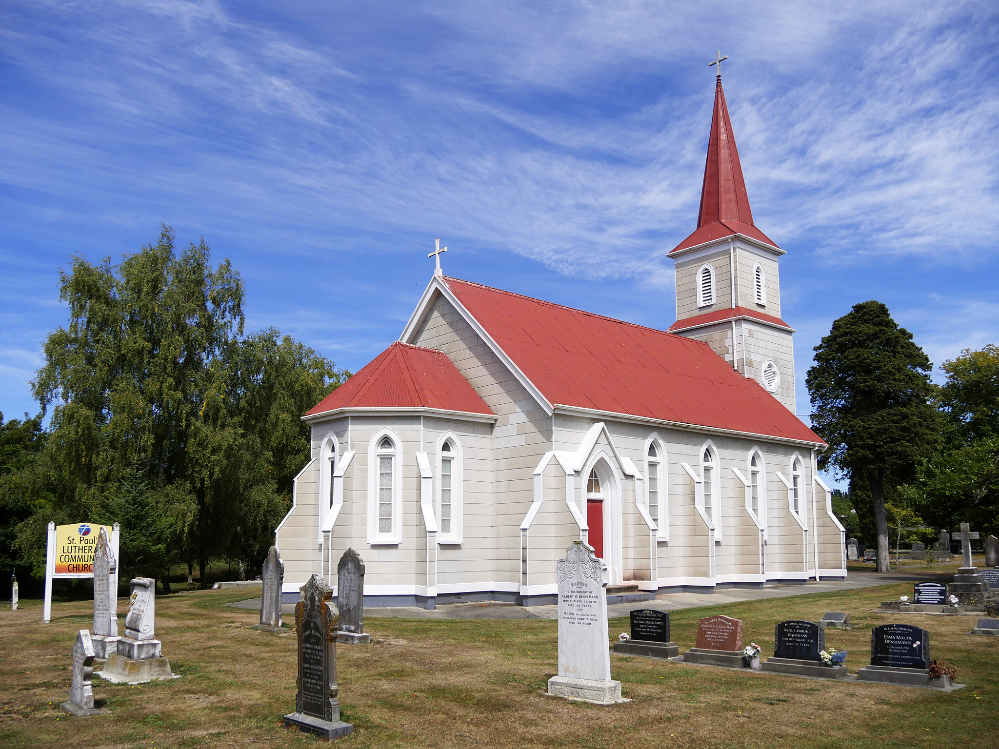 St. Paul's Lutheran Community Church, Upper Moutere (former Sarau), Tasman District, South Island, New Zealand (Historic Place Category 2)